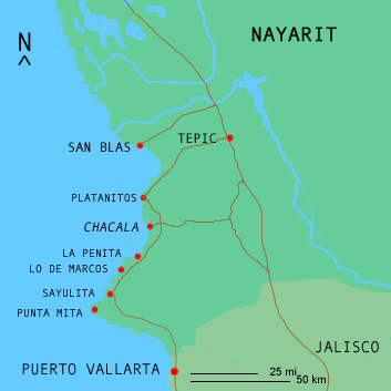 Chacala Nayarit Map - I made it 100% FaAfA original content!